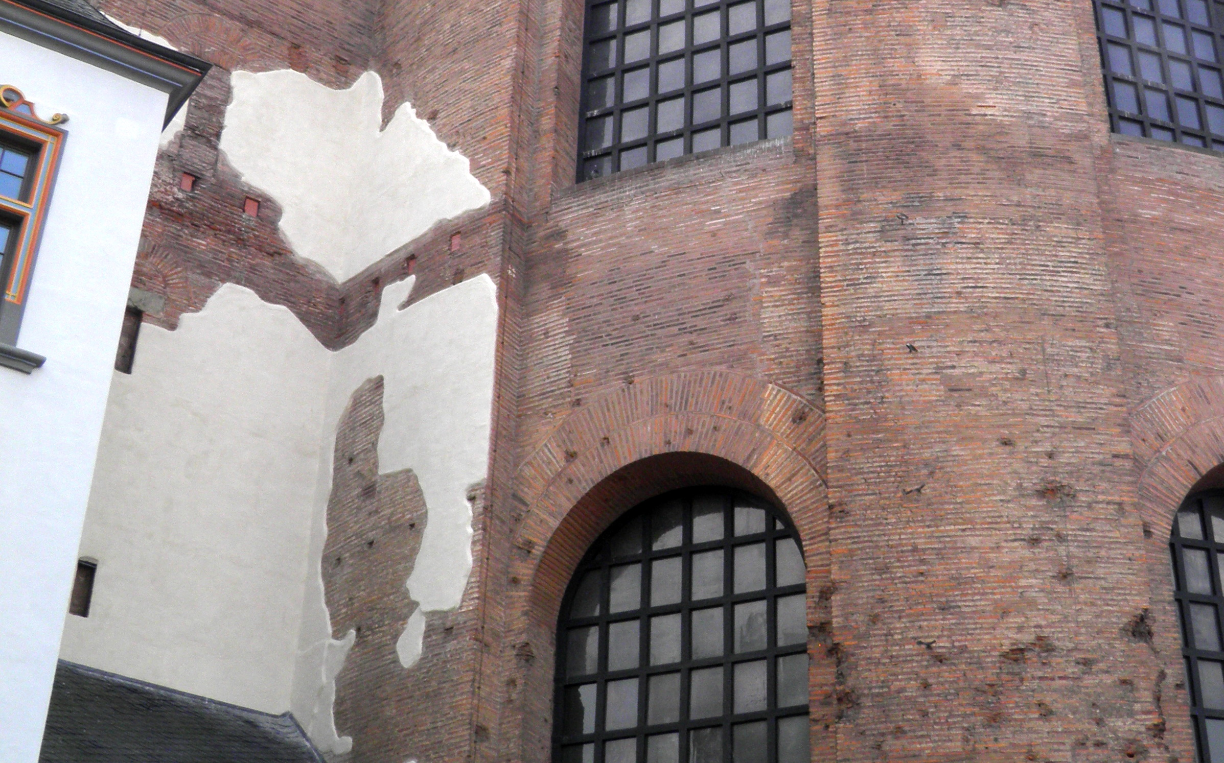 Aula Palatina (Basilica of Constantine), Augusta Treverorum, Trier